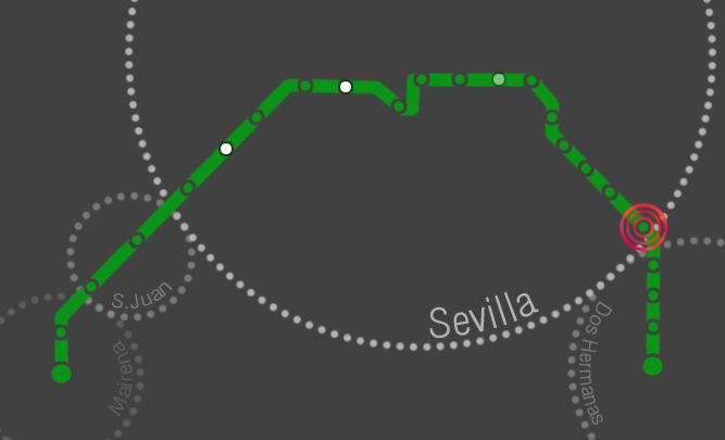 Location